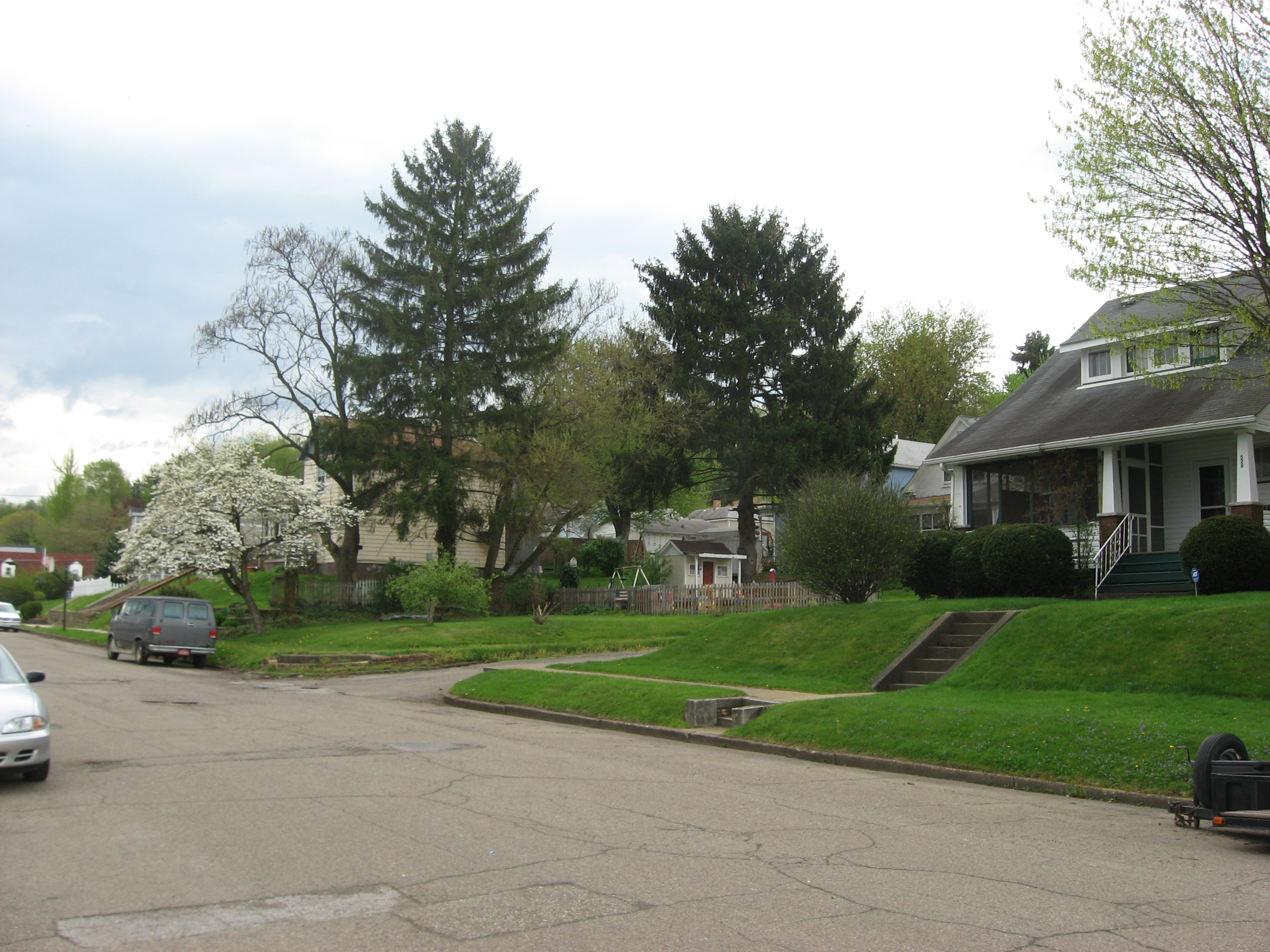 Site of the James F. Murray House at 530 Louisiana Avenue in Chester, West Virginia, United States. Built in 1903, the house is listed on the National Register of Historic Places despite having been destroyed. According to nearby residents, a fire was the cause of the destruction.